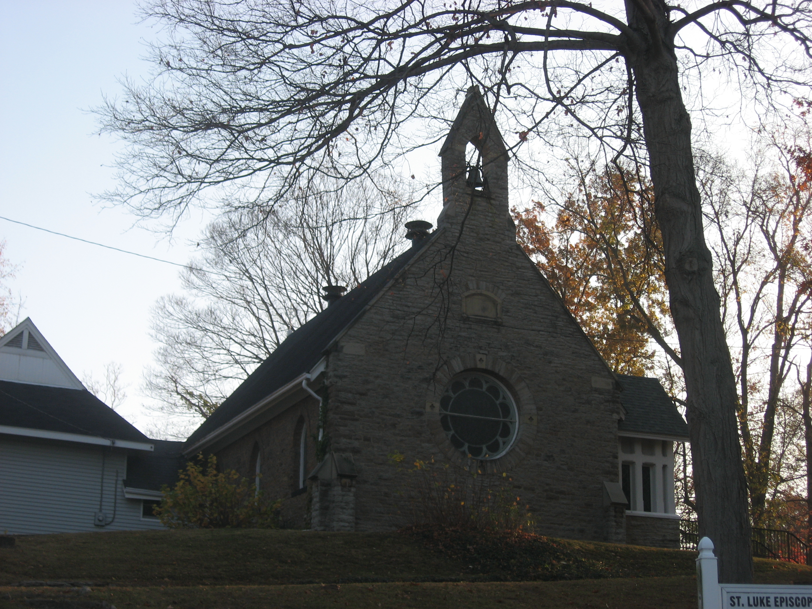 Front of the former Episcopal Church of the Resurrection (now St. Luke's Episcopal Church), located at 7346 Kirkwood Lane in the Sayler Park neighborhood of Cincinnati, Ohio, United States. Built in 1877, it is listed on the National Register of Historic Places.